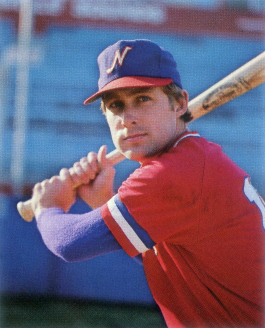 Second baseman Gene Menees of the 1979 Nashville Sounds Minor League Baseball team of the Southern League